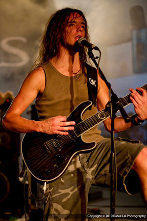 Bart Hennephof live with Textures